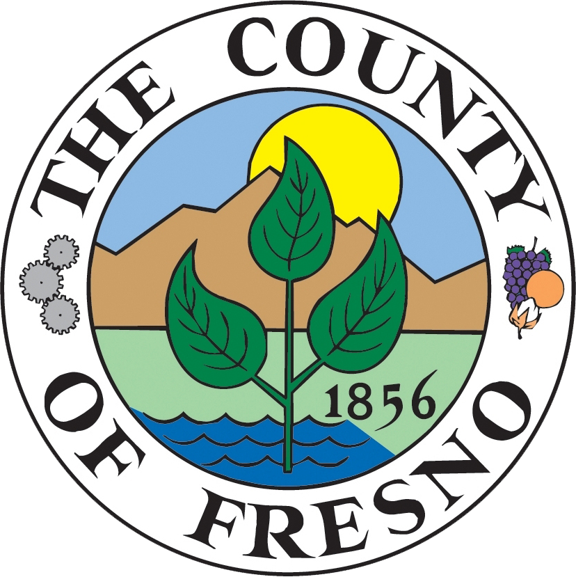 County of Fresno seal